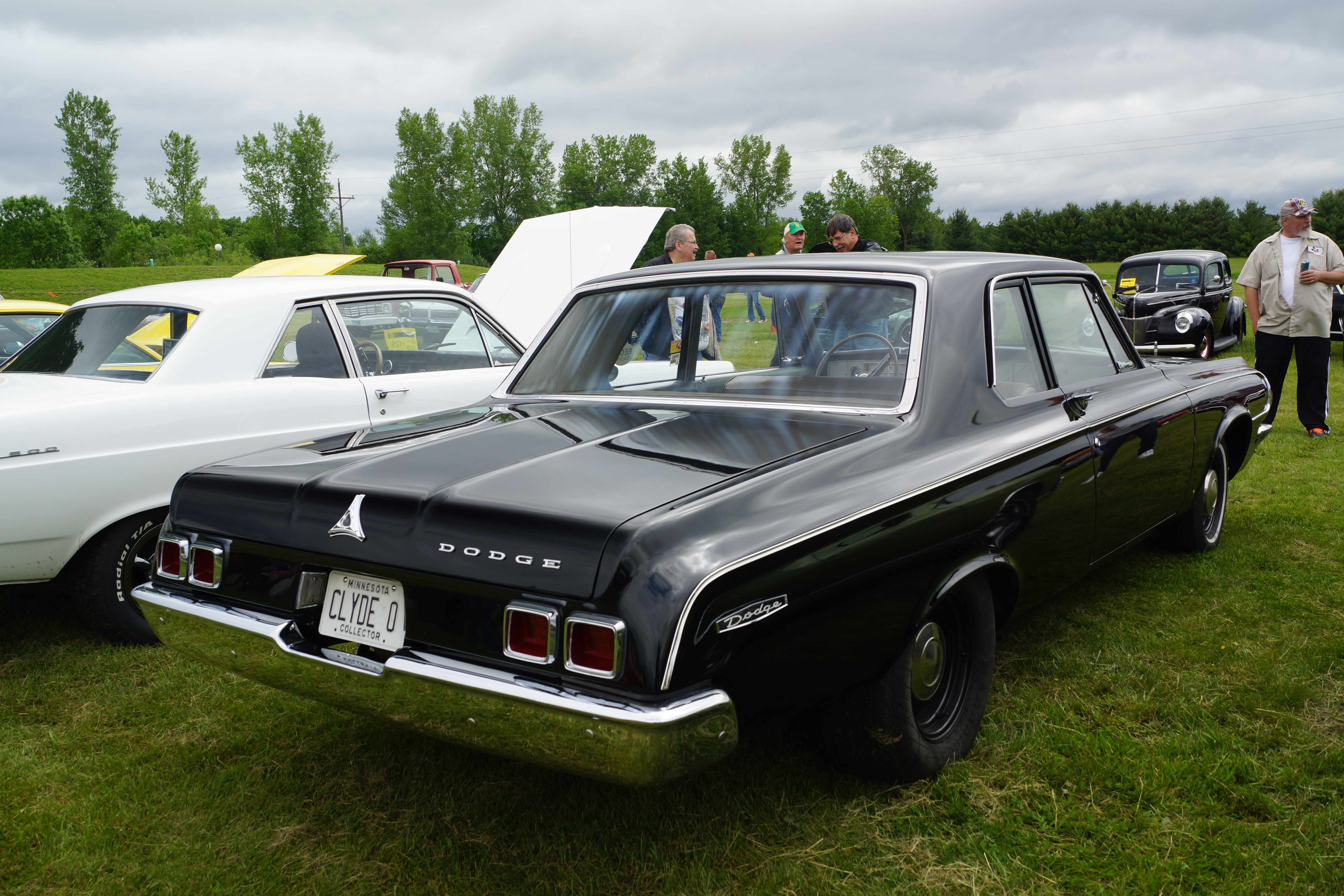 Studebaker Drivers Club North Star Chapter 43nd Annual 2017 Memorial Day Car Show Blacksmith Lounge Hugo, Minnesota Click here for more car pictures at my Flickr site. Or here for my Car Crazy Tumblr site. Or on Twitter @DVS1mn.